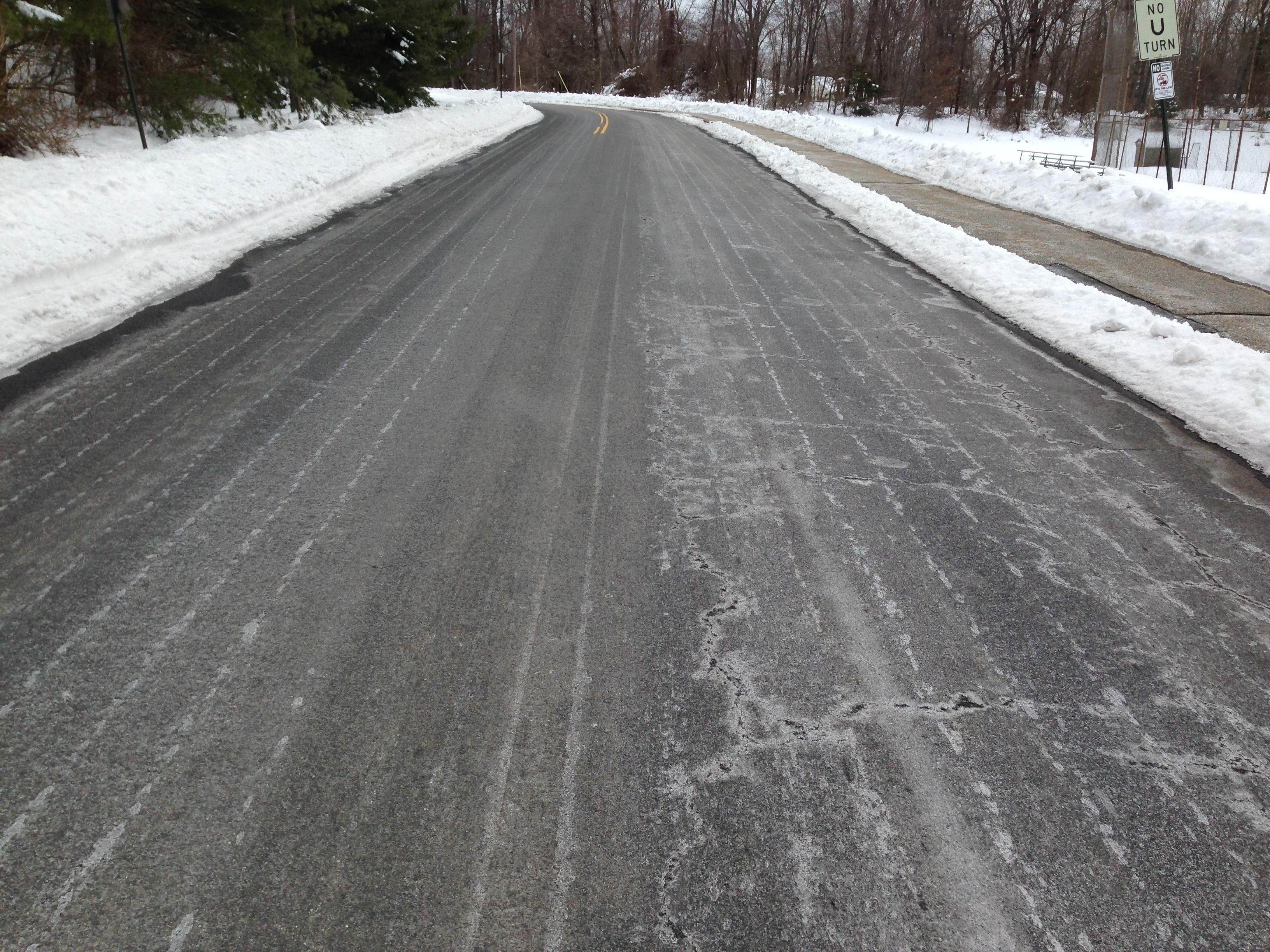 A road in New Jersey, USA with salt brine sprayed and dried on the surface in anticipation of a snow storm.